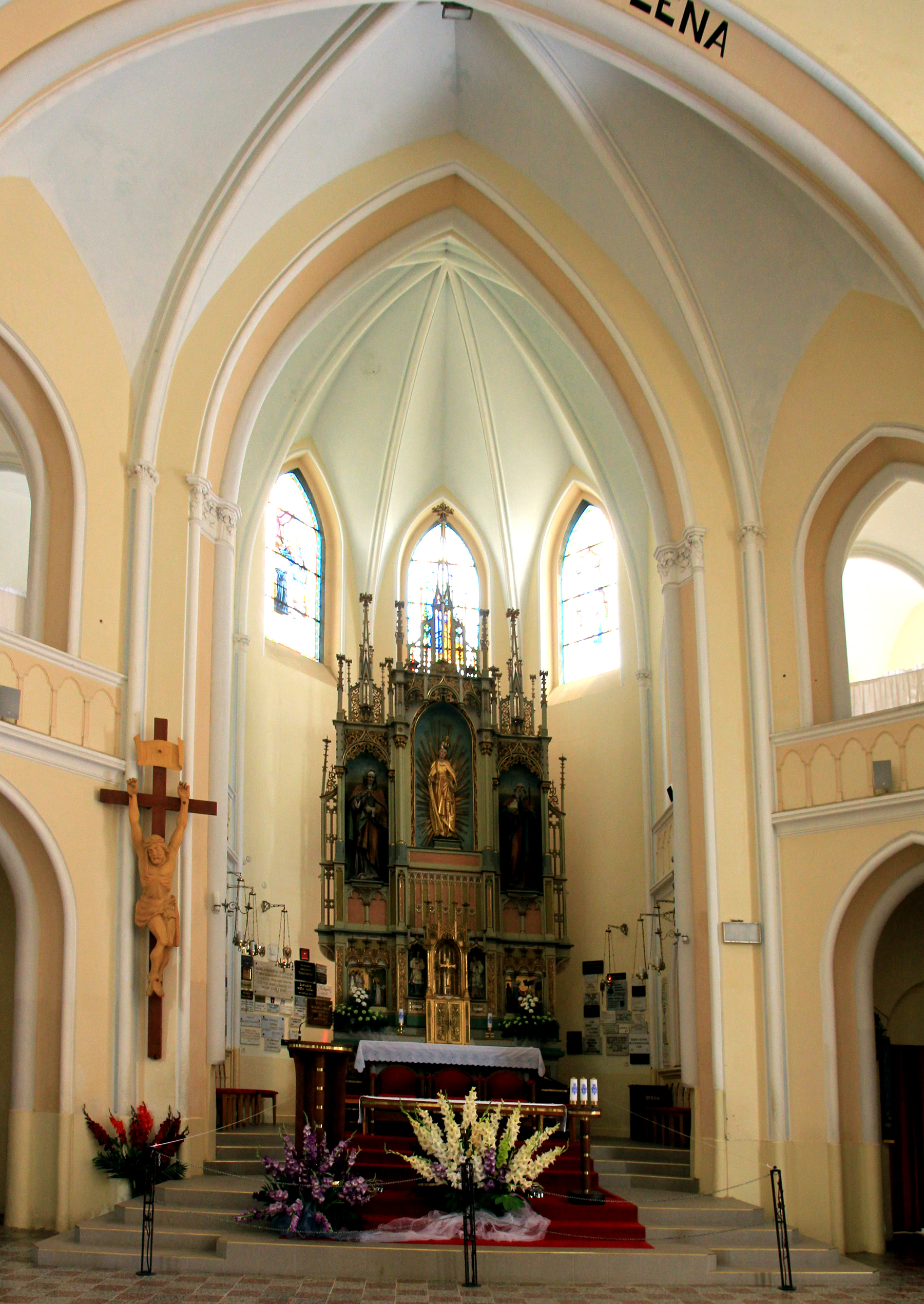 Main altar of Basilica of the Visitation on Mariánska hora in Levoča, Slovakia